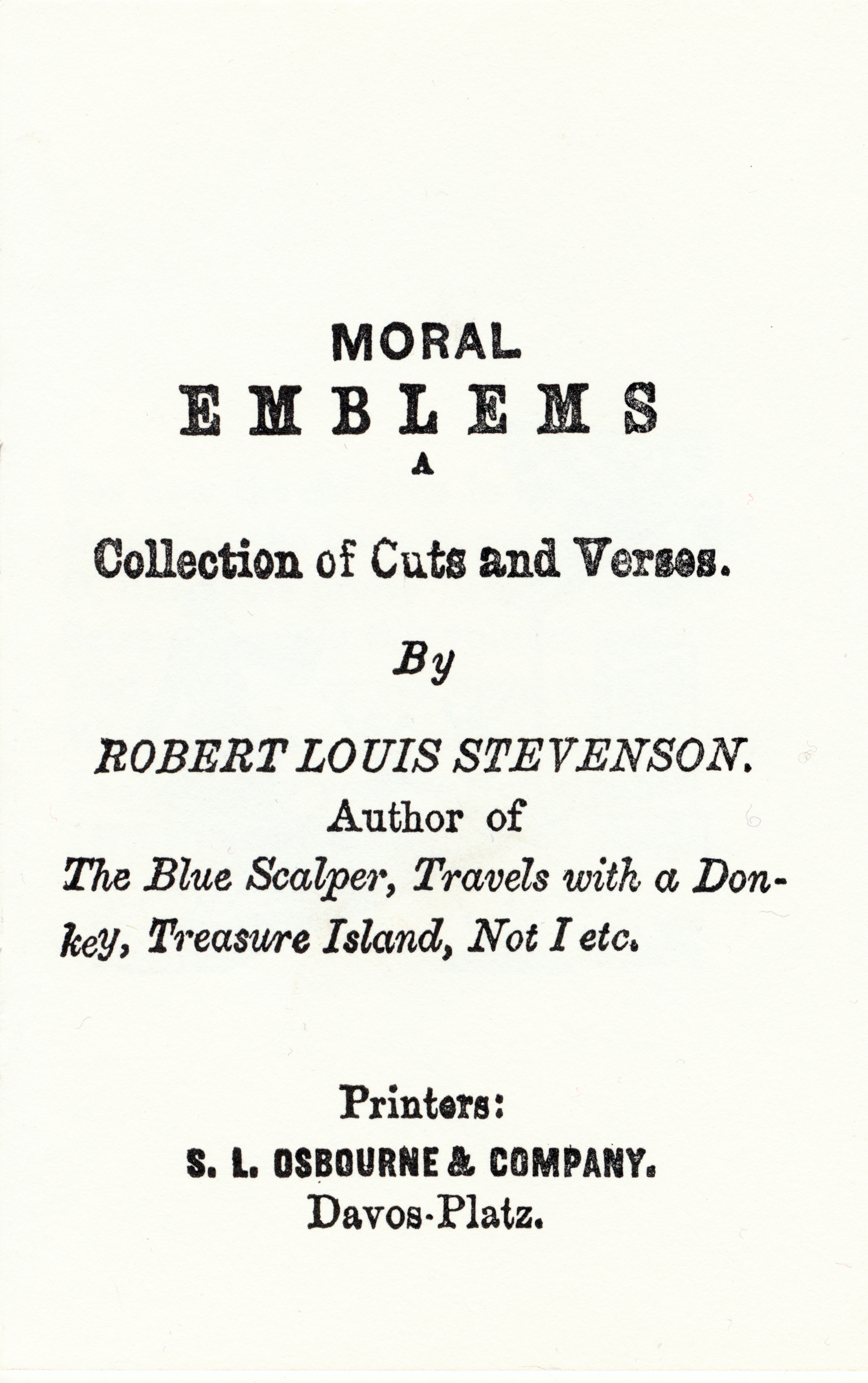 Title page of Moral Emblems by Robert Louis Stevenson printed and published by Lloyd Osbourne in Davos.